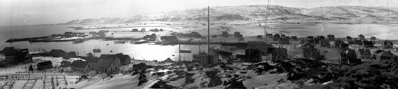 Title: Nordeuropa, Siedlung Extra information: Norwegen, Lappland, Finnland.- Winterlandschaft, Blick über eine Ortschaft an der Küste und eine Bucht; PK 680 Factual corrections and alternative descriptions are encouraged separately from the original description. Additionally errors can be reported at this page to inform the Bundesarchiv. Original historic description